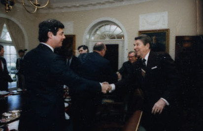 President Ronald Reagan, Baker, Atwater, Duvall, Klinge, Manafort, Nickles, Roberts, Stone, Totten, Cribb, Donatelli, Tuttle, Black, Carter, Kitchen, Lukens, Masson, Richards, Shelby, Timmons, Bauer, Courtemanche, Lavin, (Not in all Photos)